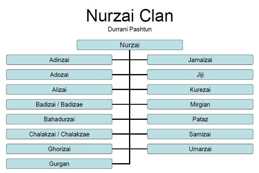 Nurzai subtribes